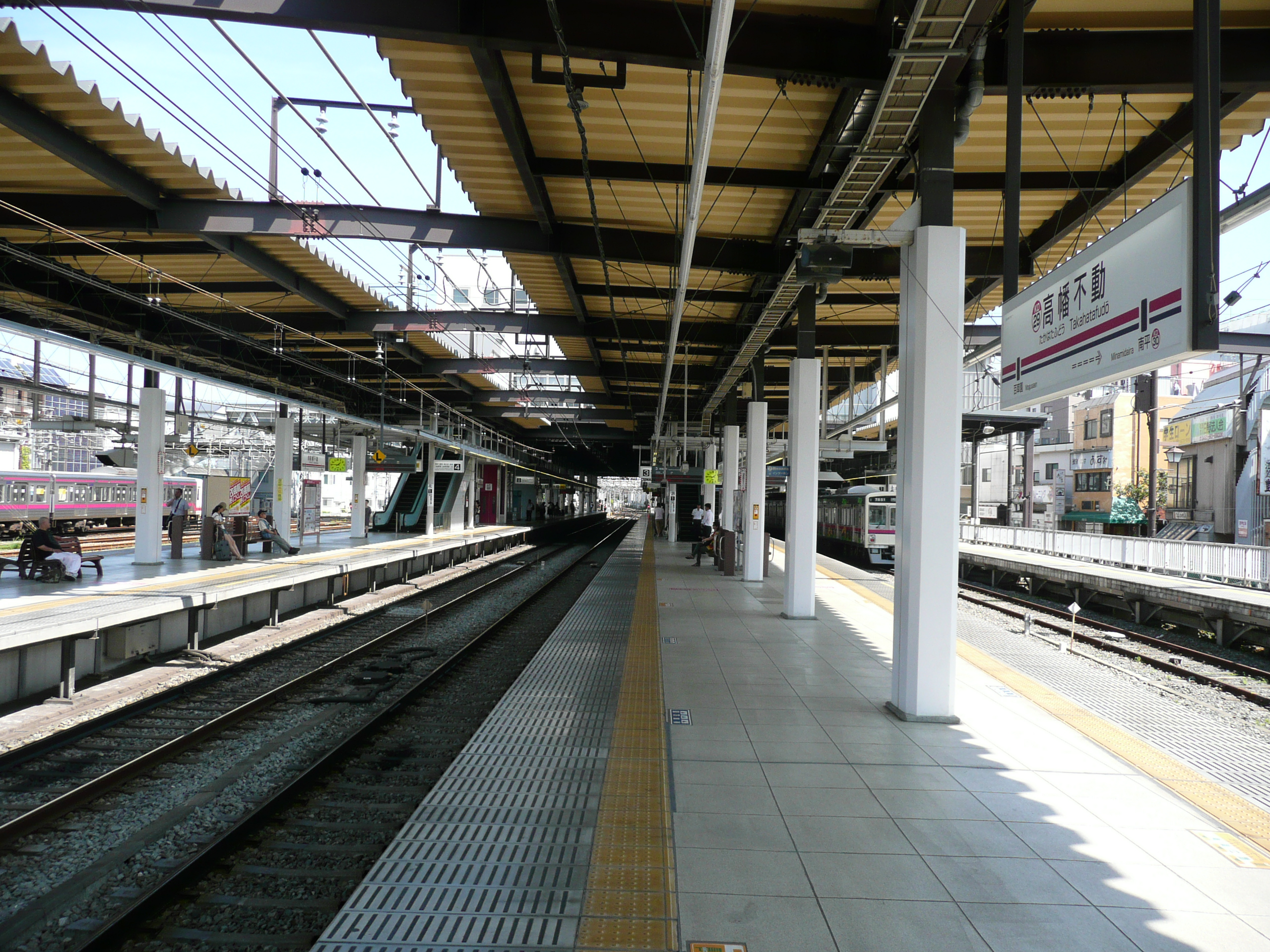 Platforms of Takahatafudō Station(Keio Line)